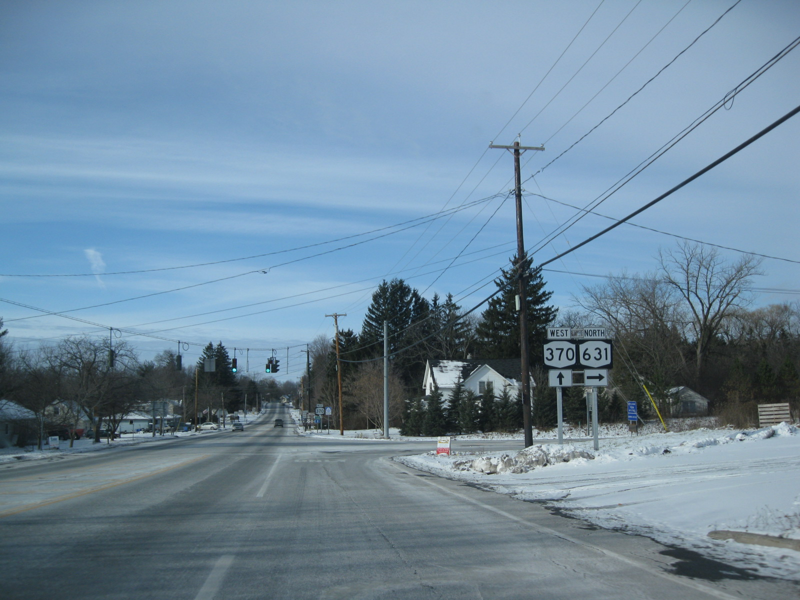 New York State Route 370 westbound at New York State Route 631 in Baldwinsville.